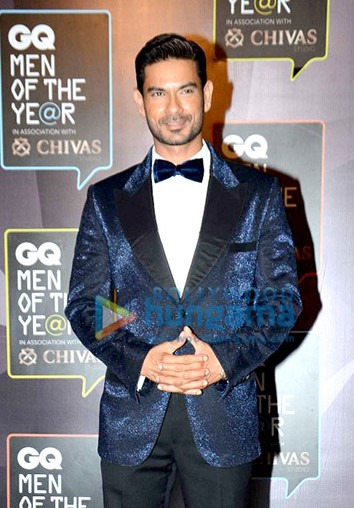 Keith Sequeira at tha Red Carpet of GQ Men Of The Year Awards 2015.